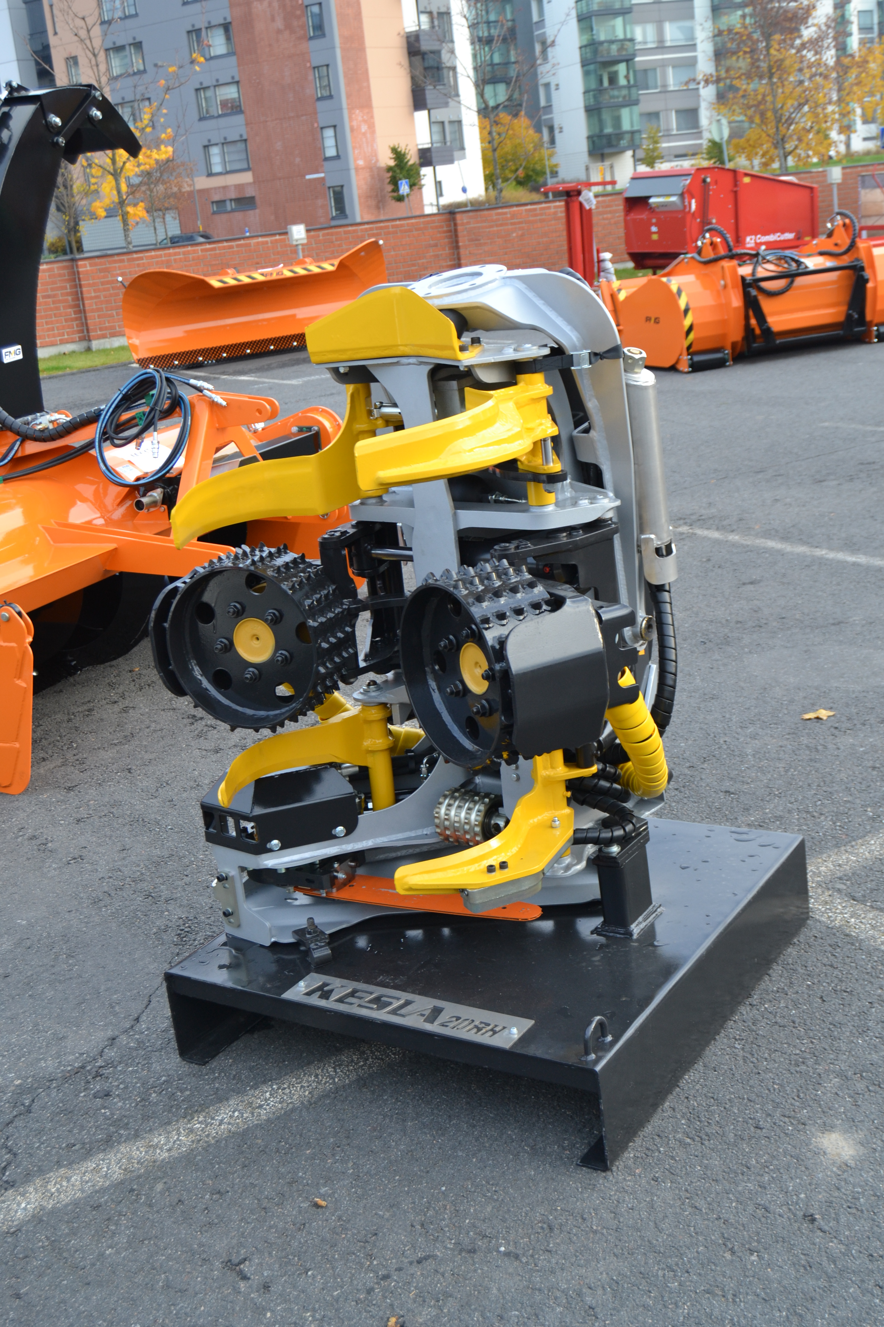 Kesla 20RH harvester head